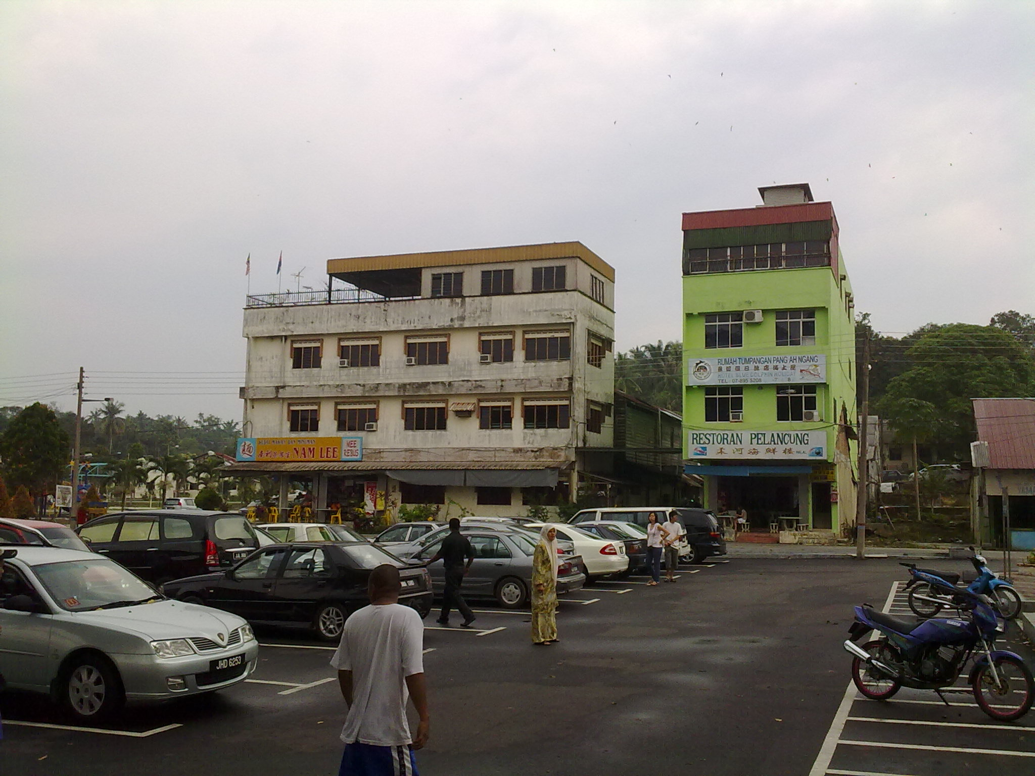 Main building in Teluk Sengat